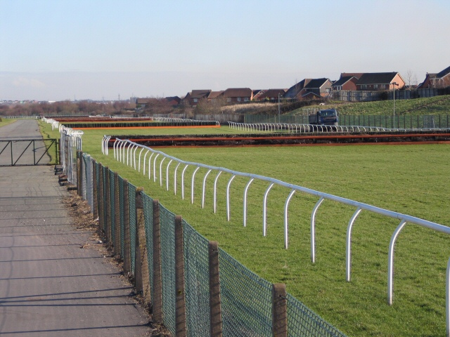 Aintree Racecourse Original description: Towards Bechers Brook Looking east along part of the Aintree racecourse. Becher's Brook is down by the trees in the distance, and away to the left of shot.